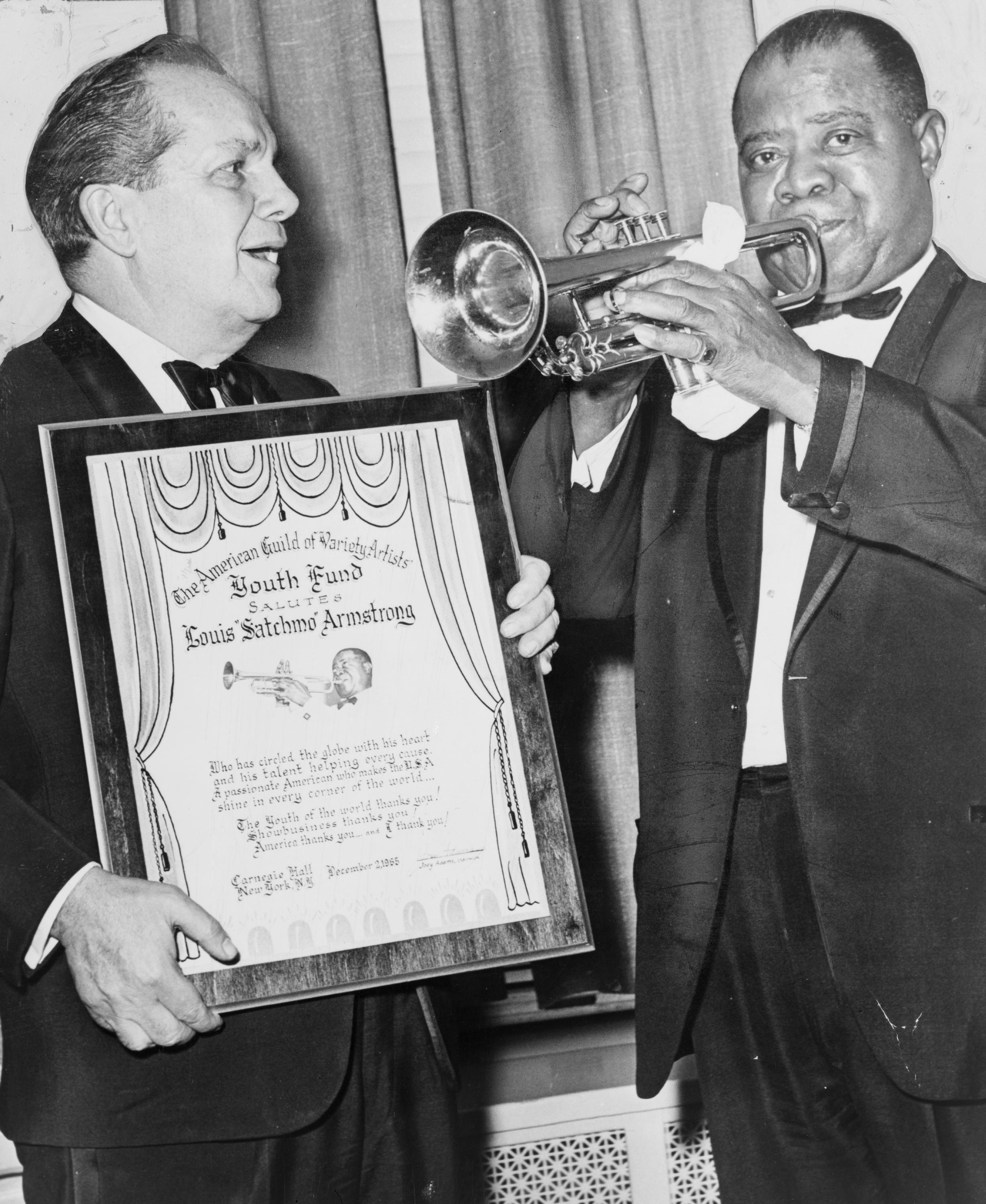 Louis Armstrong plays trumpet while Joey Adams, president of the American Guild of Variety Artists Youth Fund, presents him with an award at Carnegie Hall